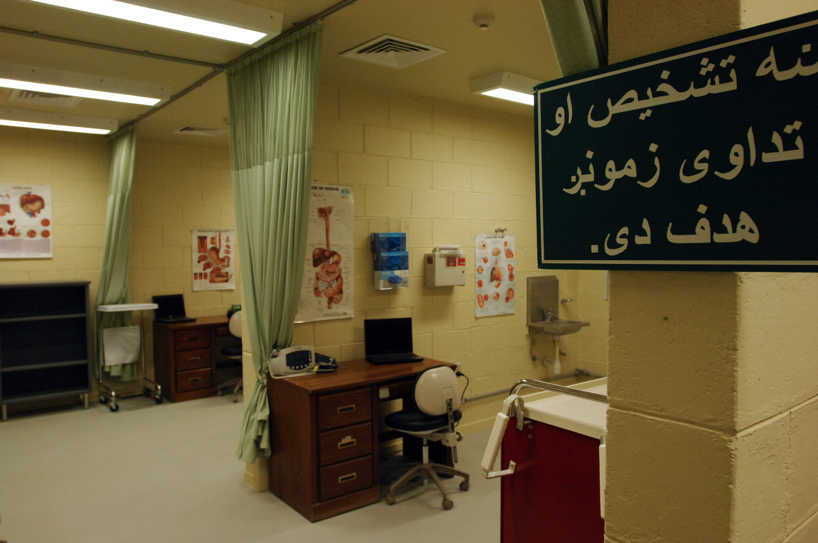 The nurse office inside the US-built detention facility in the Parwan Province of Afghanistan.